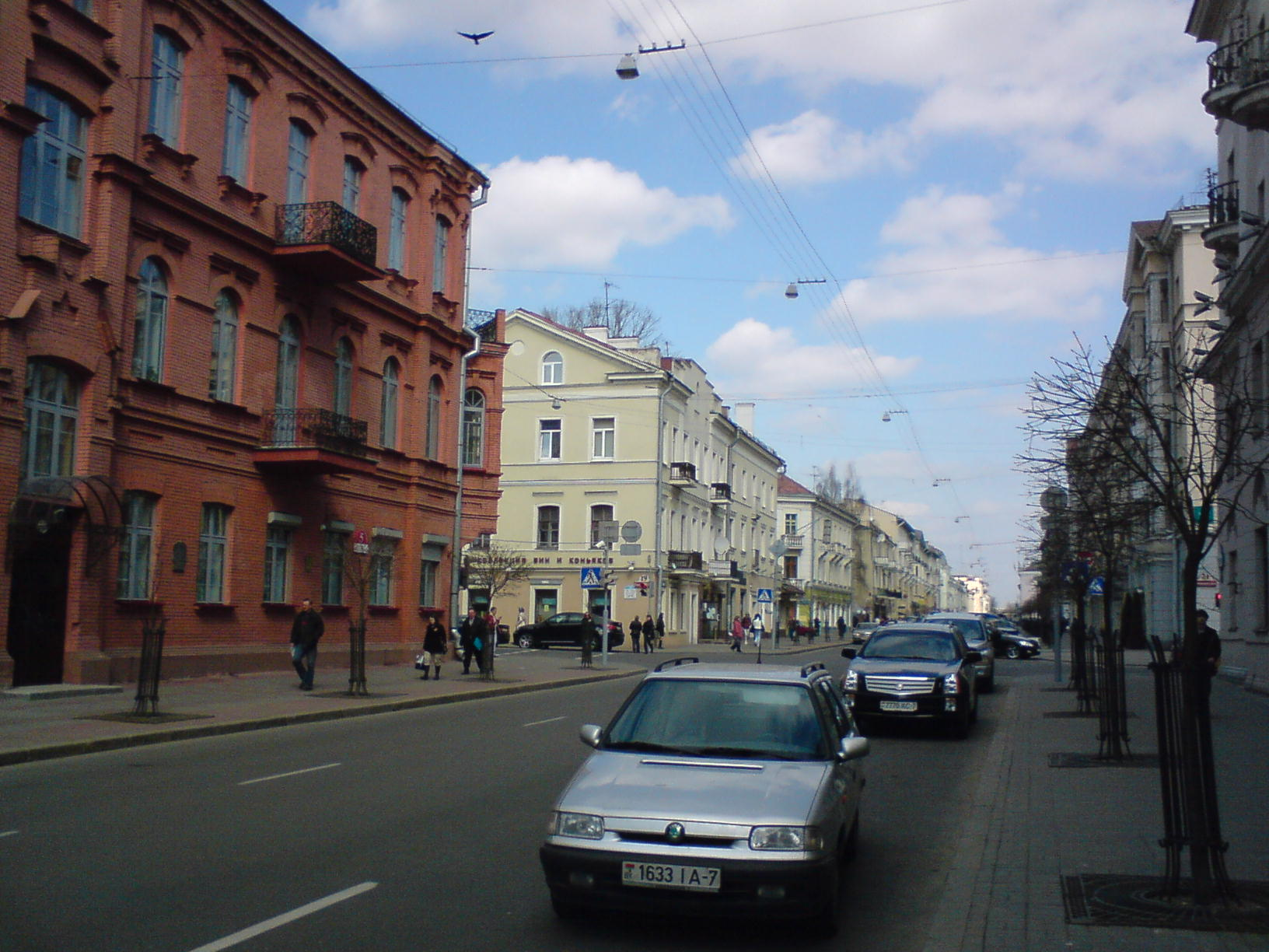 K. Marx street photo